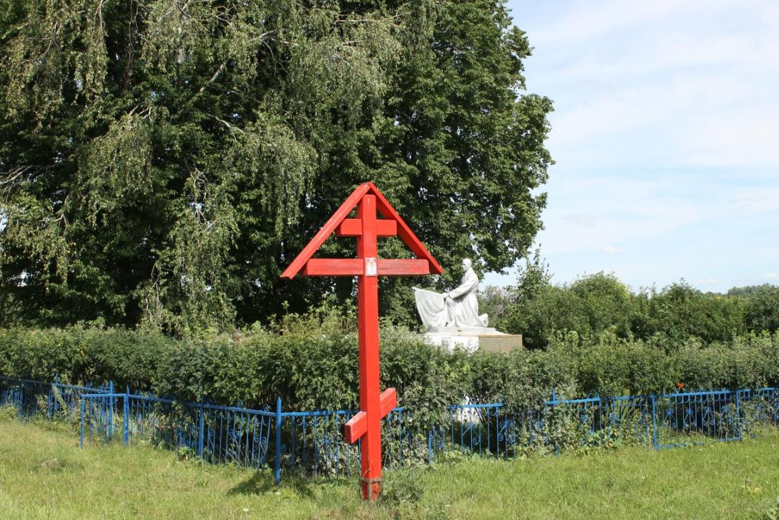 Братская могила в посёлке Щербовский Орловской области